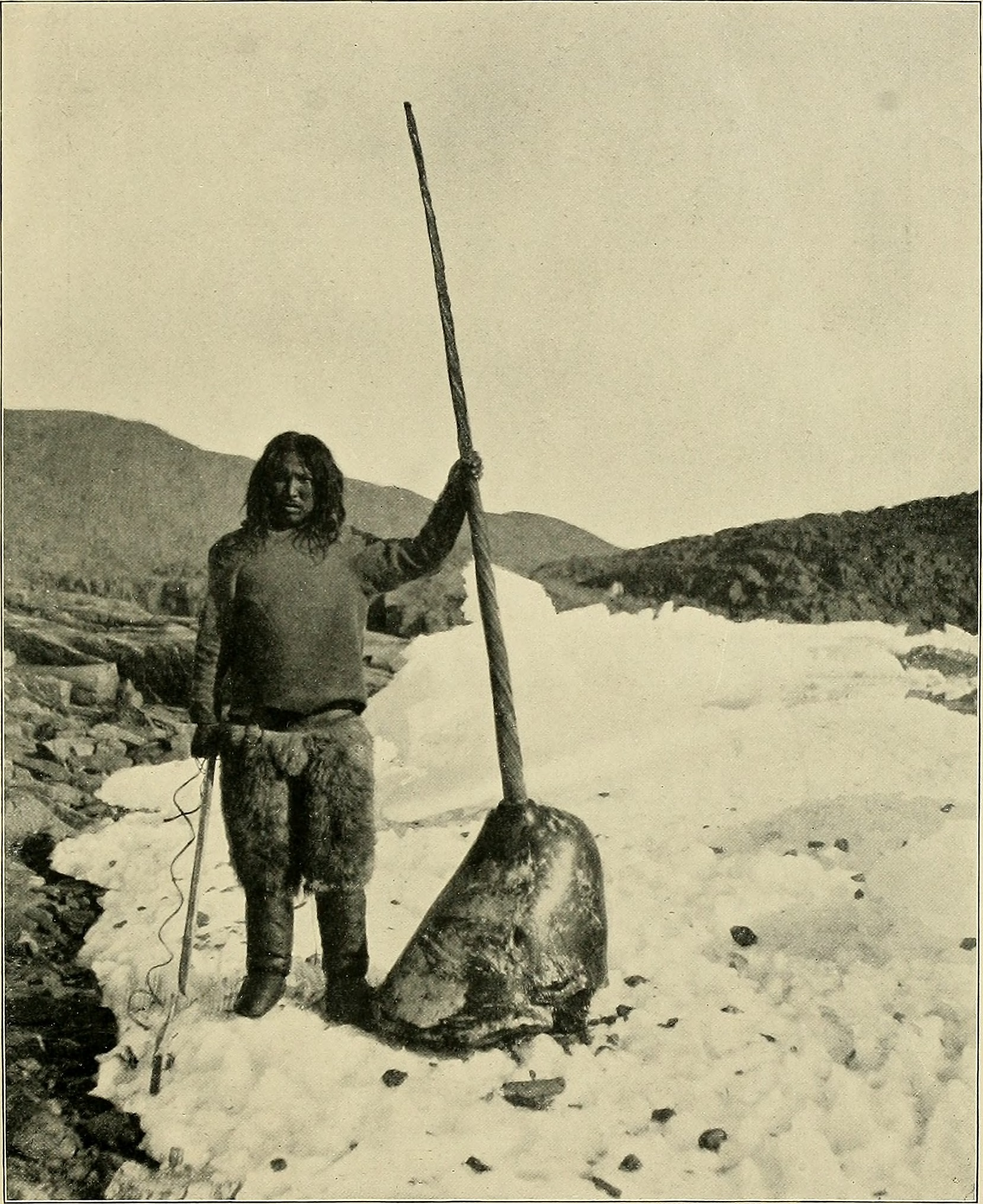 Title: Children of the Arctic Year: 1903 (1900s) Authors: (Peary, Josephine (Diebitsch) Mrs.) Peary, Marie Ahnighito, 1893-1978, joint author Subjects: Children Publisher: New York, F.A. Stokes Company Text Appearing Before Image: LDREN OF THE ARCTIC By the middle of June the sea ice was coveredwith pools of water, and it was no easy task toget ashore from the ship without getting the feetwet. Snow buntings (our snowbirds) were flit-ting about the rocks, and small tufts of greengrass were to be seen here and there. The Eskimos harpooned some narwhal out atthe edge of the ice, and AH-NI-GHI-TO isperhaps the only little white girl who ever sawthese strange Arctic sea animals, with their longwhite ivorv horns and huee tails. It was now decided to help free the ship byhaving the men saw a road through the ice tothe open water beyond. Saws eight and ten feet long were used, andfor weeks the sawino- went on. Sometimes a bottle filled with gunpowder waslet down under the ice through a hole thathad been drilled, and the long fuse that hadbeen fastened to it was lighted. When the firereached the powder it exploded; but althoughit cracked the ice for a little distance, very littlewas broken off. 90 CHILDREN OF THE ARCTIC Text Appearing After Image: - AHNGOODLOO and a Narwhal Head ivtth its Long White Ivory Horn During this time AH-NI-GHI-TO was overon the island with Koodluktoo and Billy Bah 91 CHILDREN OF THE ARCTIC